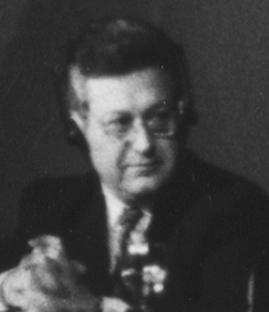 President Ayaz Mutalibov of Azerbaijan at the Annual Meeting of the World Economic Forum in Davos in 1992.